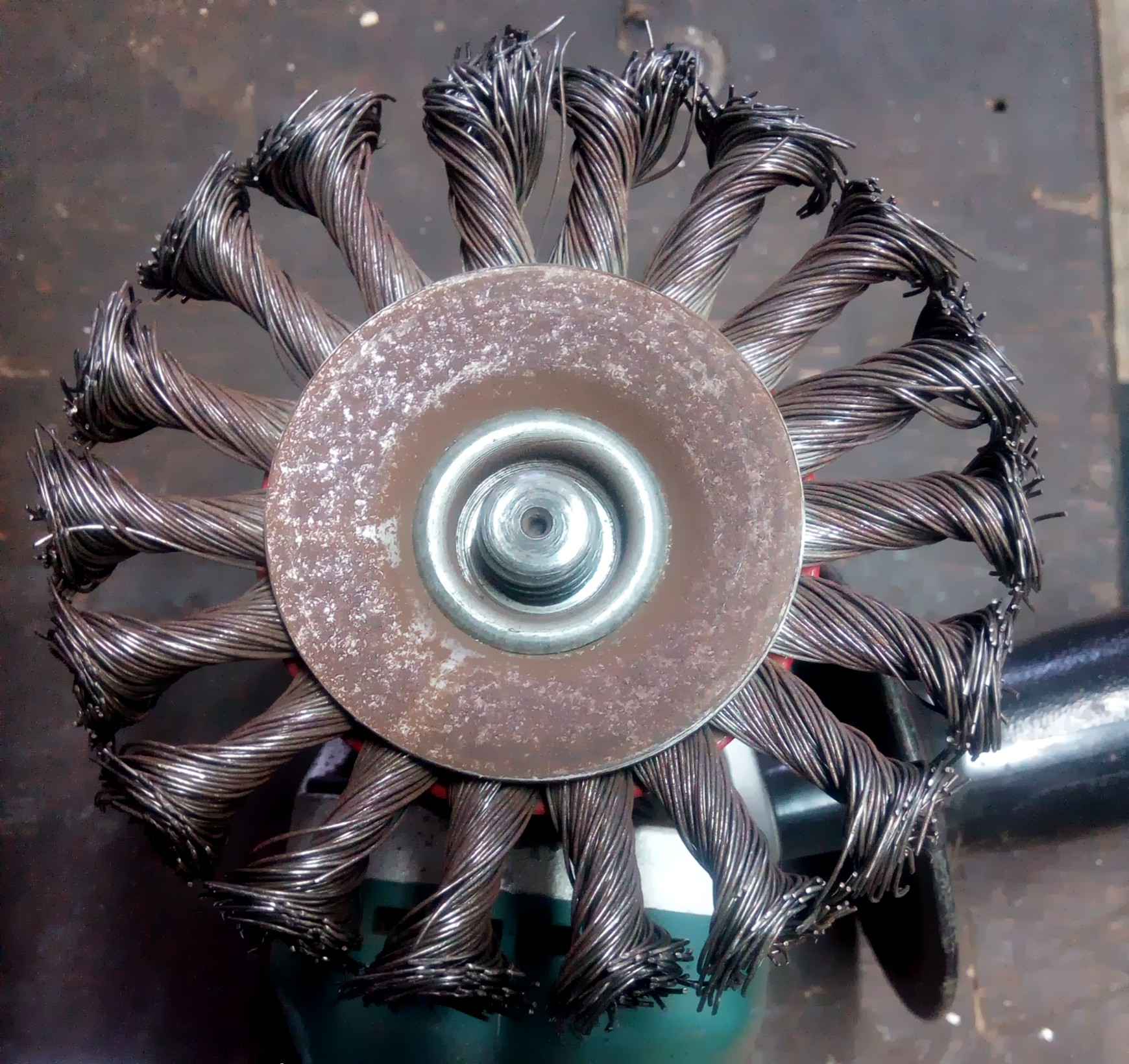 Metallic brush for angular grinder (mounted)